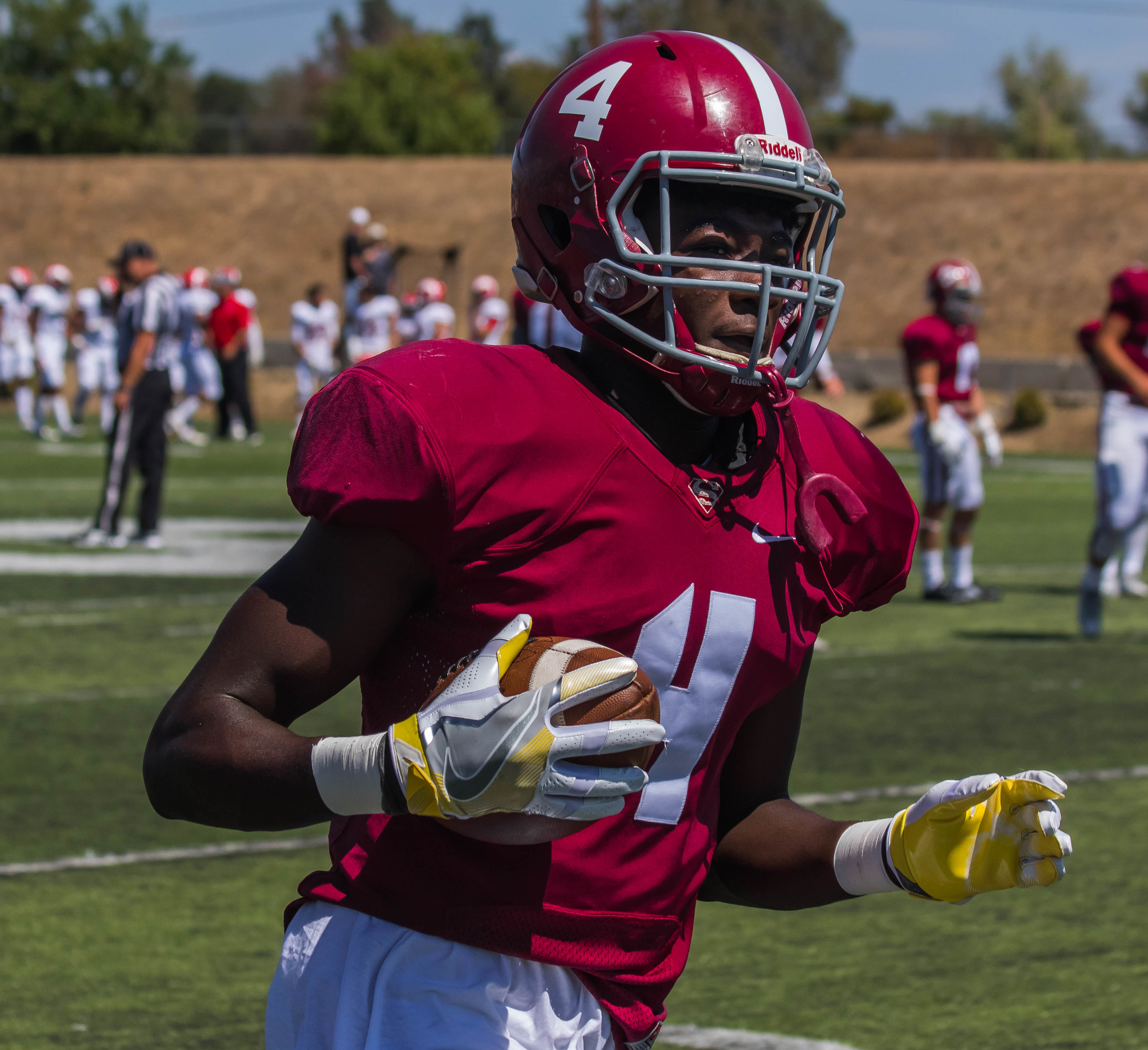 Sierra College Wide Receiver Brandon Aiyuk (04) warming up before a football match between Sierra College and Fresno City College on September 3, 2016. Fresno City won the match with a final score of Sierra 19, Fresno 45.